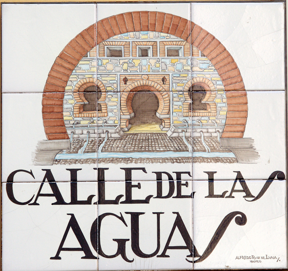 Sign of Calle de las Aguas (street, Centro district) in Madrid (Spain).